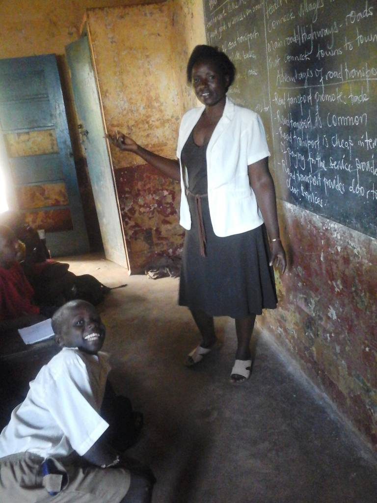 Ugandan teacher teaching children in primary school